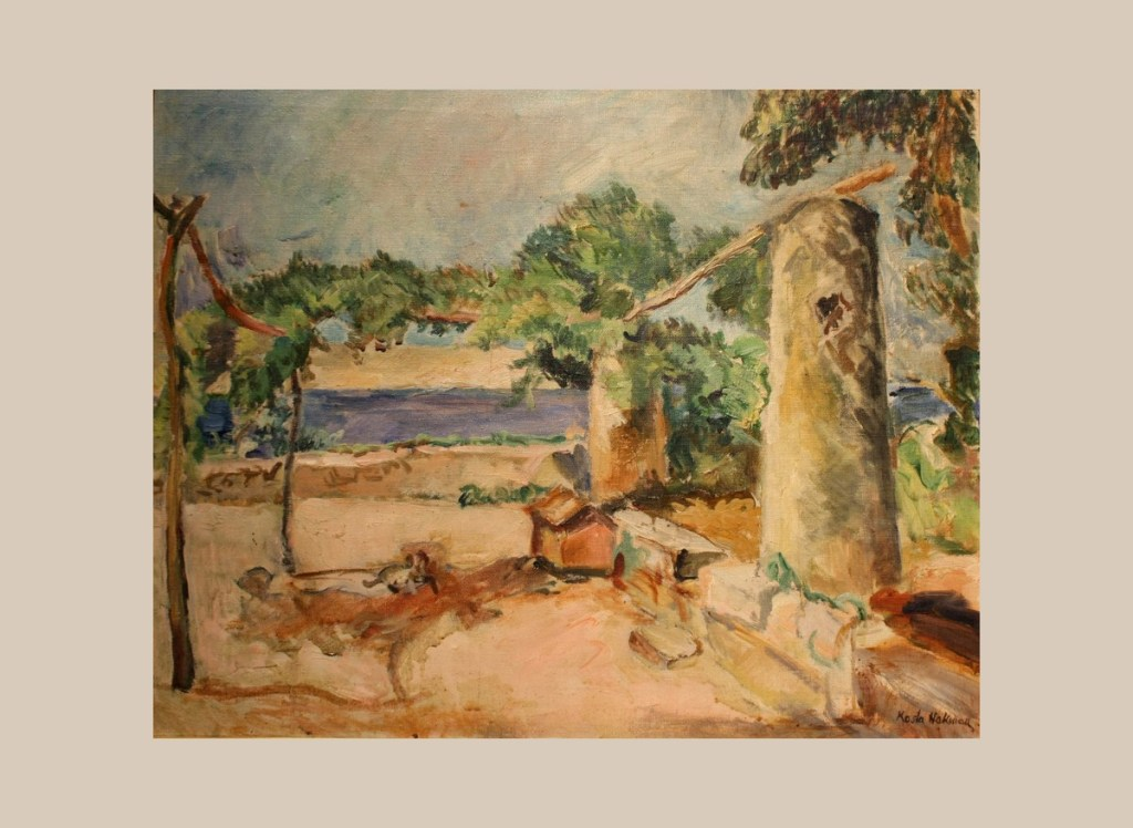 Kosta Hakman's painting "Landscape", around 1930